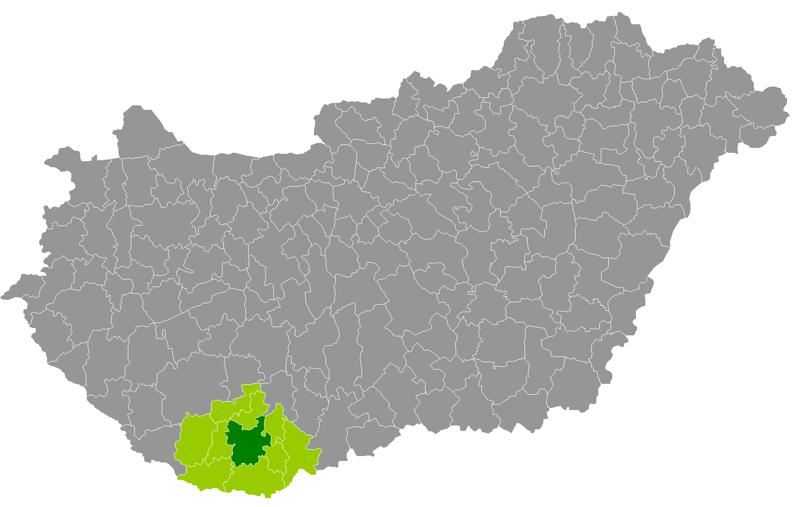 Location of Pécs District, Baranya, Hungary